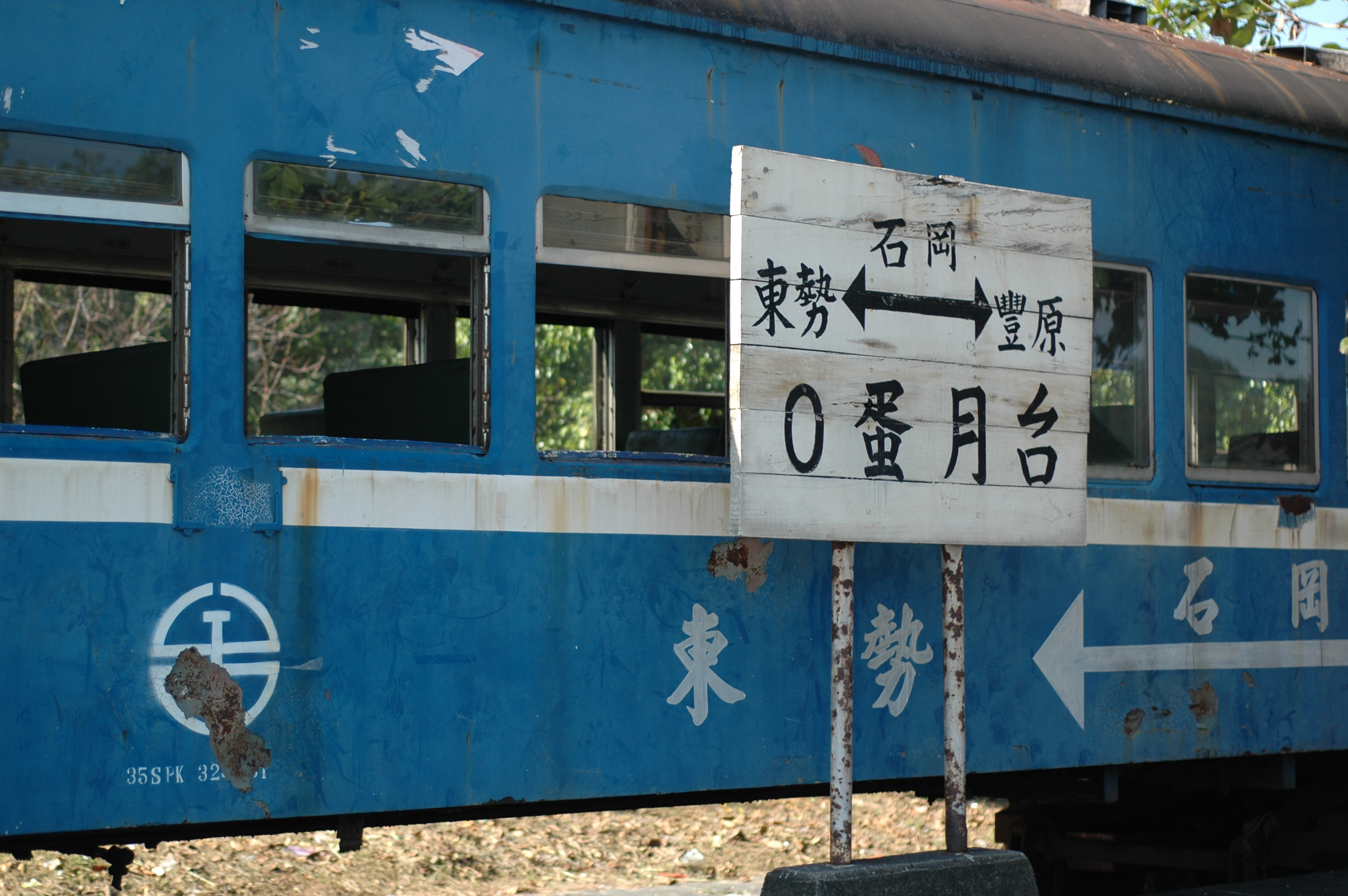 Zero-mark Platform, Shihkang Station, Taiwan Railway Administration. 中文（台灣）: 臺灣鐵路管理局石岡車站0蛋月台。